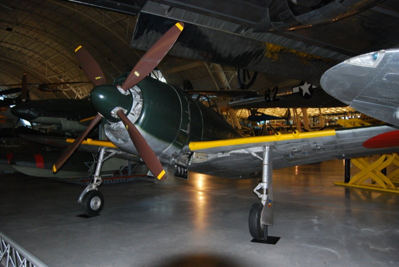 Kawanishi N1K2-J at National Museum of Naval Aviation